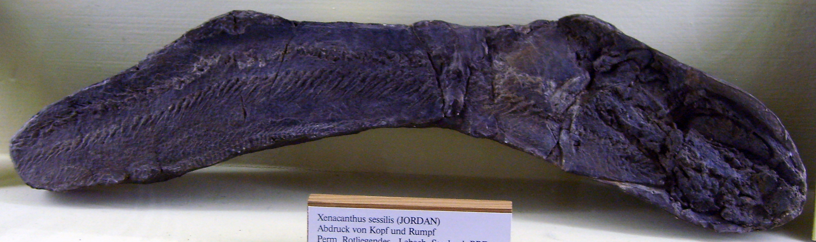 Impression of the head and body of Xenacanthus sessilis at the Museum für Naturkunde, Berlin.